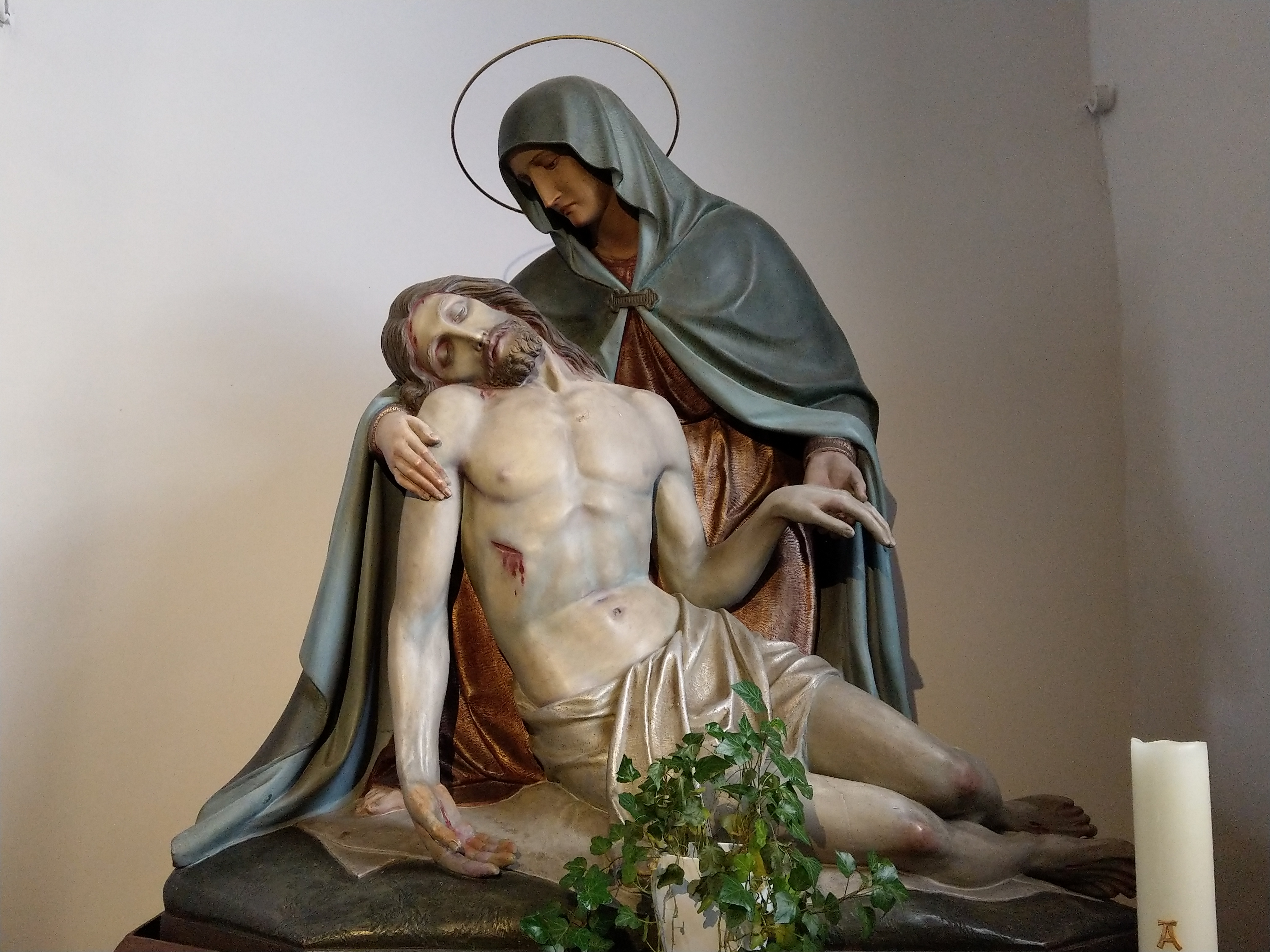 History and date, see category.